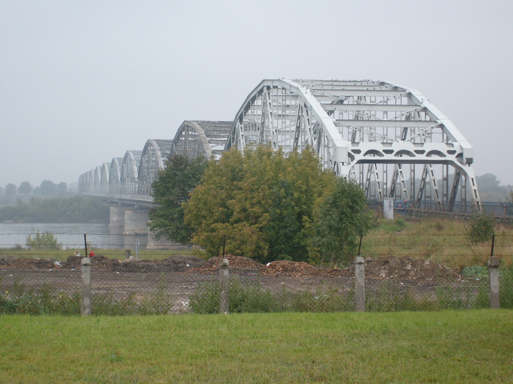 The Bronisław Malinowski Bridge in Grudziądz, Poland